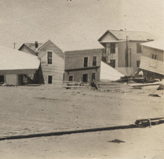 Cluster of houses submerged in sand, 1915 Galveston Hurricane, damage